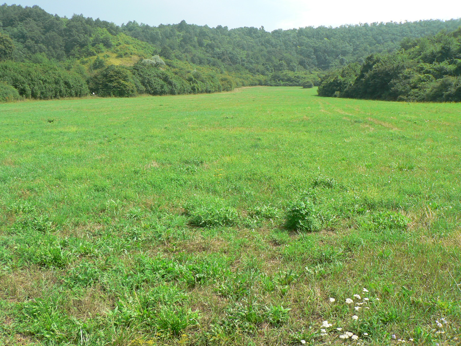 Hosszan elnyúló lapályos völgy a tó délkeleti végénél